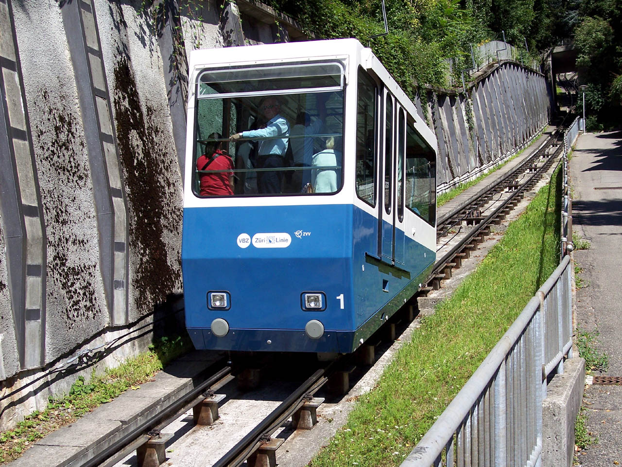 Seilbahn Rigiblick is a funicular in Zürich, operated by council-owned Verkehrsbetriebe Zürich. This is car number 1 at the bottom of the line.